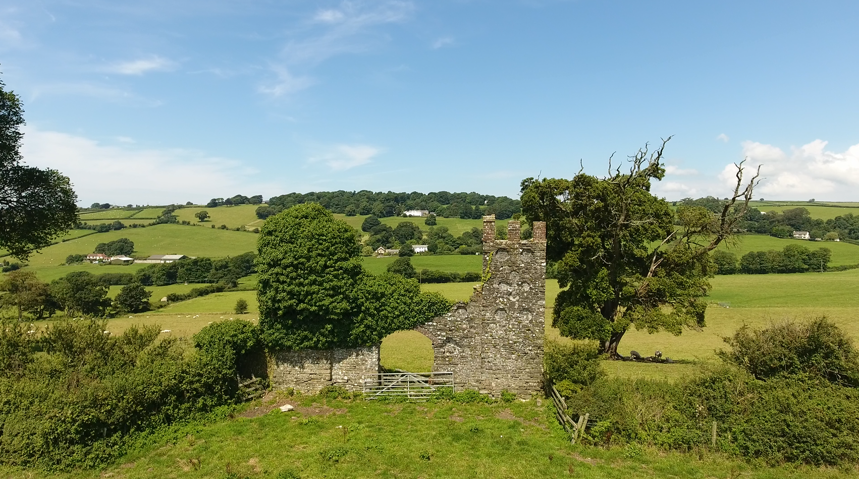 Sham-Castle Folly in park of Upcott House in the parish of Pilton, Devon. Looking north towards Upcott House, higher white stucco house in background (lower white stucco house is Pilland House, formerly part of the Upcott estate; farm to left is Beara). Folly on hilltop 51 metres high (OS map). Folly built by Lieutenant-Colonel William Harding (1792-1886) of Upcott, antiquary, geologist and army officer. Grade II listed, text as follows: "Eyecatcher approx 600 metres south of Upcott House (formerly listed as Folly at Upcott) Eyecatcher to be seen from Upcott House q.v. Circa 1800 (sic). Sham Gothic ruin, stone rubble on rubble plinth. Large central opening with segmental brick arch with moulded imposts and remains of brick features above. Blind loop patters of two roundels to each side of central quatrefoil. Taller flanking walls resembling towers break forward slightly, each with a pair of blocked roundels above and below large blind quatrefoil. 3 brick crenellations to left, one remaining to right. Low rubble wall curves away on west side" [1]